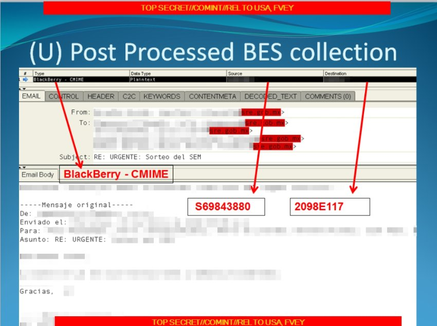 This slide comes from an internal National Security Agency presentation called "Your target is using a BlackBerry? Now what?" It shows a Mexican government e-mail which was sent or received by a BlackBerry, and collected by the NSA. BES is short for BlackBerry Enterprise Server.